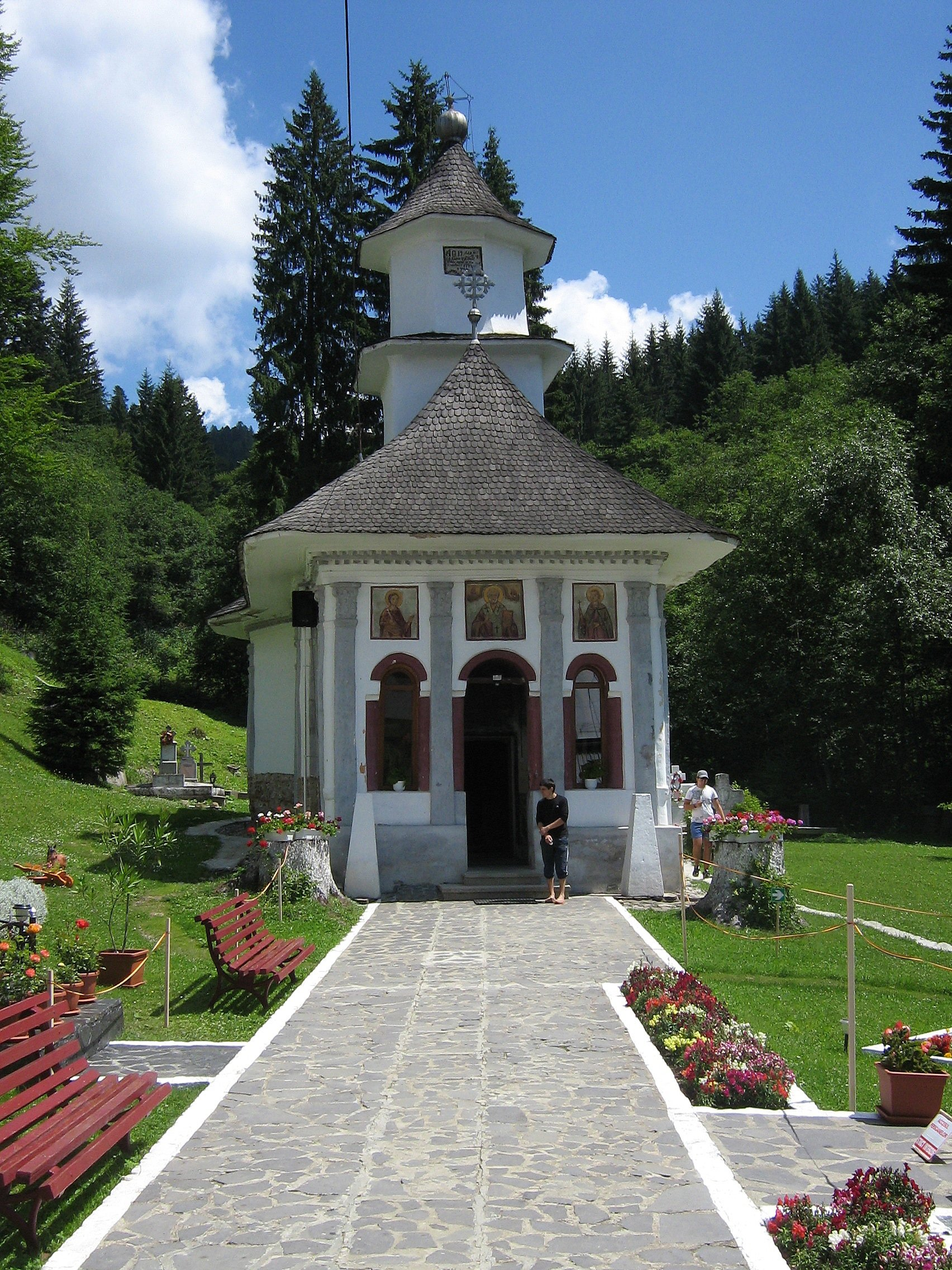 A small, secluded eighteenth century orthodox monastery (now a nunnery), it is the place to go if you are looking for an old church where you can be alone with the icons and the cross - a place for a little solitude and meditation. The mural painting in the charming little church is not so well preserved, but its patina can make you feel like you are in a time long, long ago. The nice nun at the door graciously allowed me to take pictures inside the church.